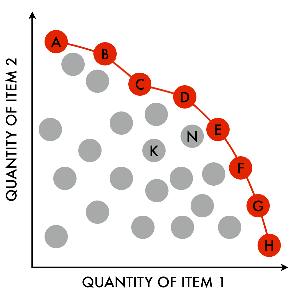 A Pareto Optimal Front, illustrated using a production-possibility frontier.